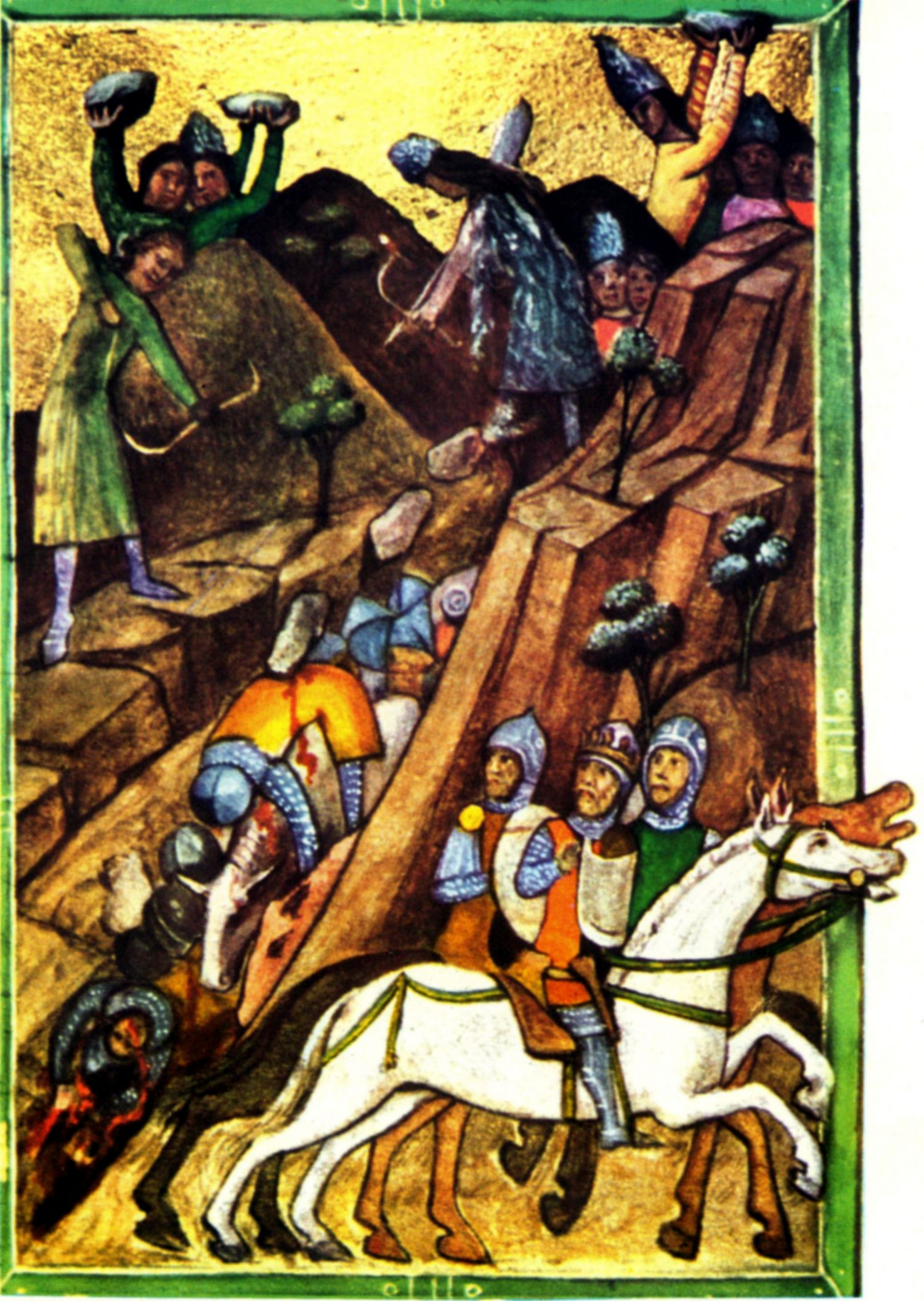 An illustration from Chronicon Pictum depicting the battle of Posada